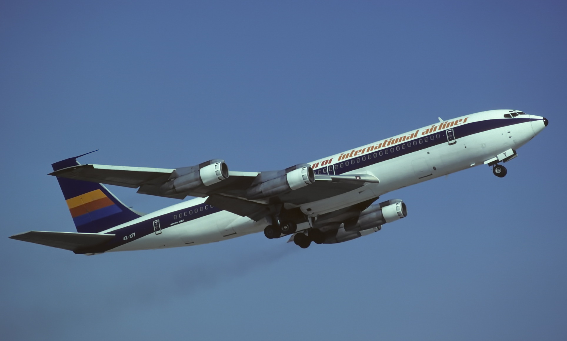 4X-ATY, Sundor International Boeing 707, at Düsseldorf International